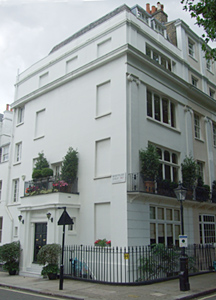 8 Montpelier Square, London. House formerly owned and lived in by the writer Arthur Koestler until his death in 1983.